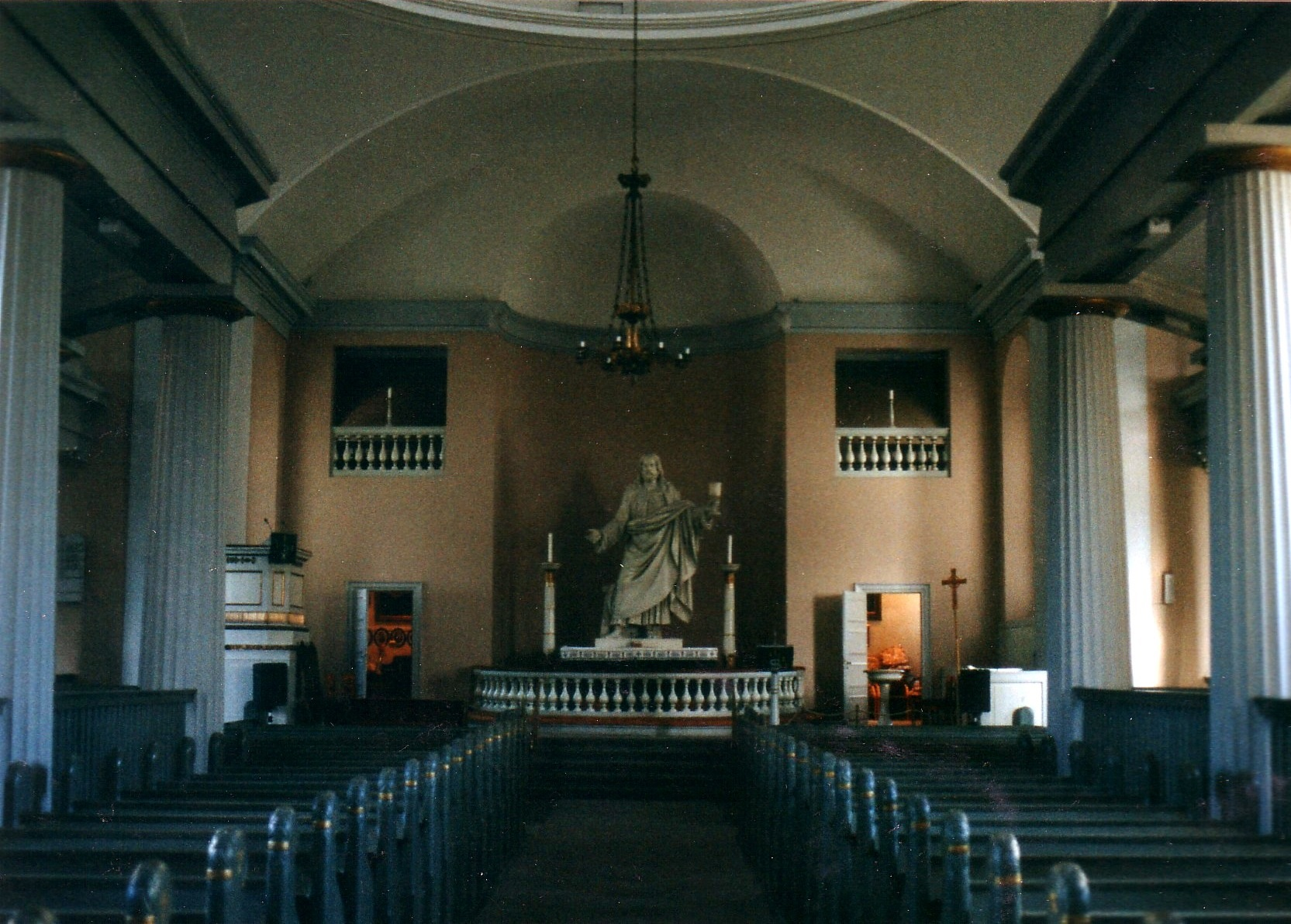 The Church of Immanuel in the city of Halden, South Norway